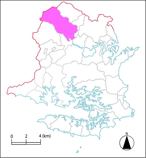 This is the map of Isobecho-Erihara, Shima, Mie, Japan.